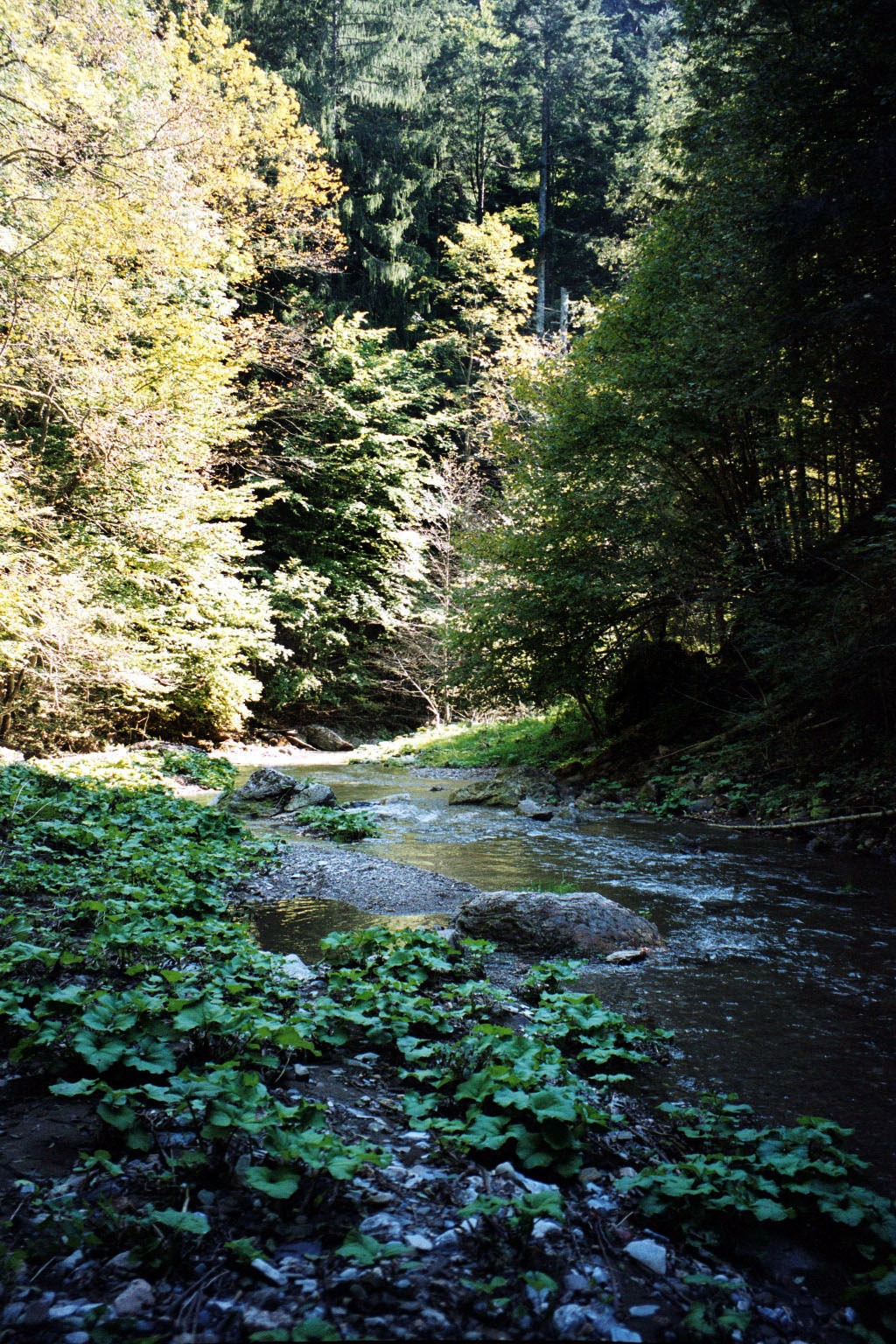 The Raabklamm in Styria, Austria. Formed by river Raab.